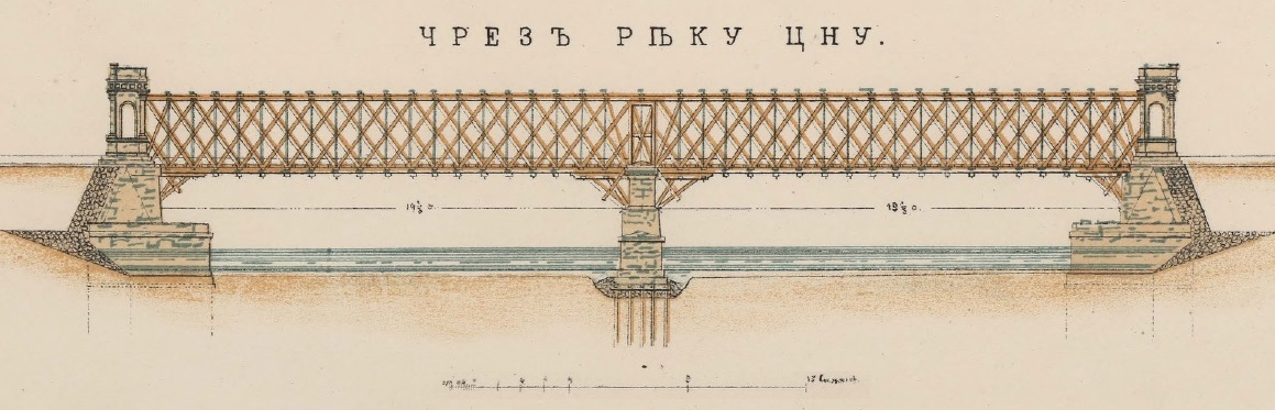 Bridge over the Tsna river. Saint Petersburg–Moscow railway